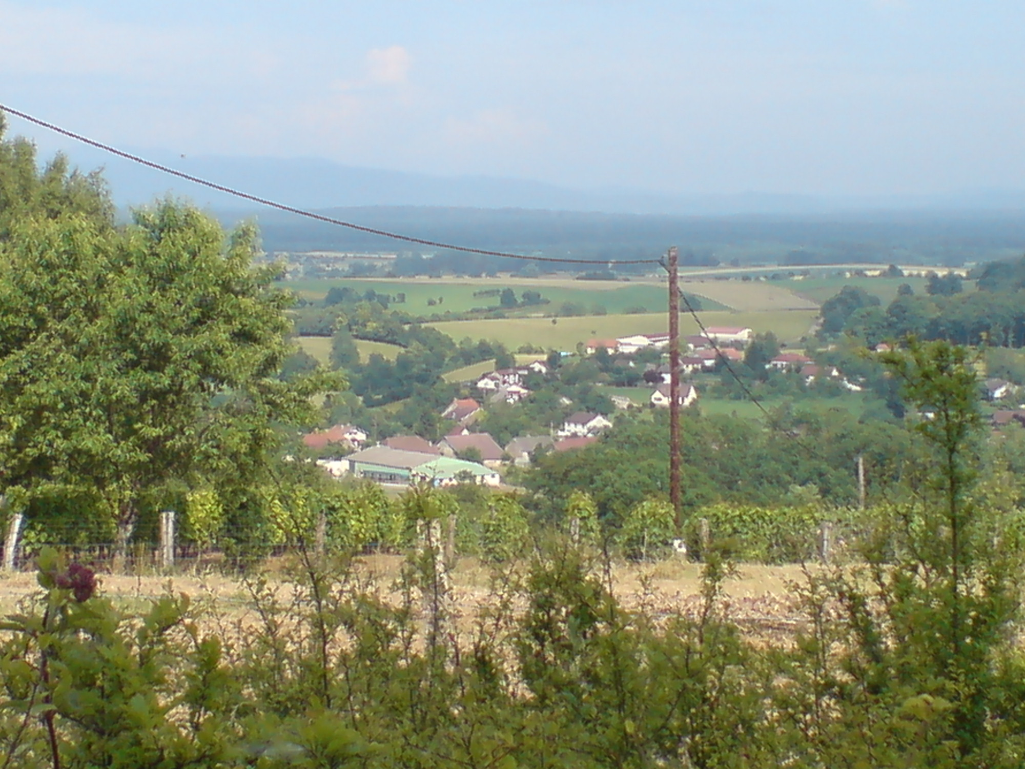 This is a view of Dambenoît-lès-Colombe seen form the mountain.